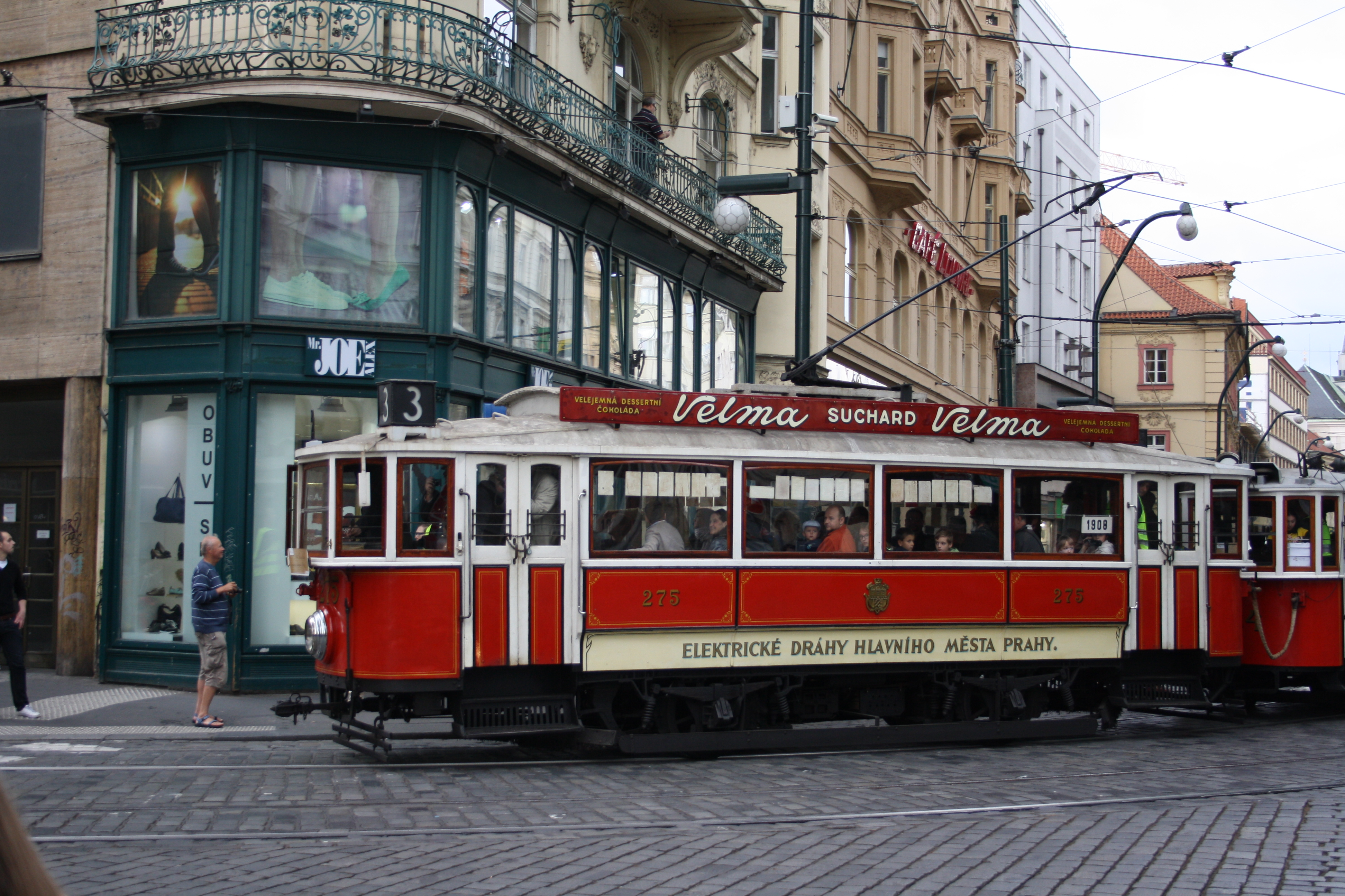 Museum tram with trolley pole and additional strip